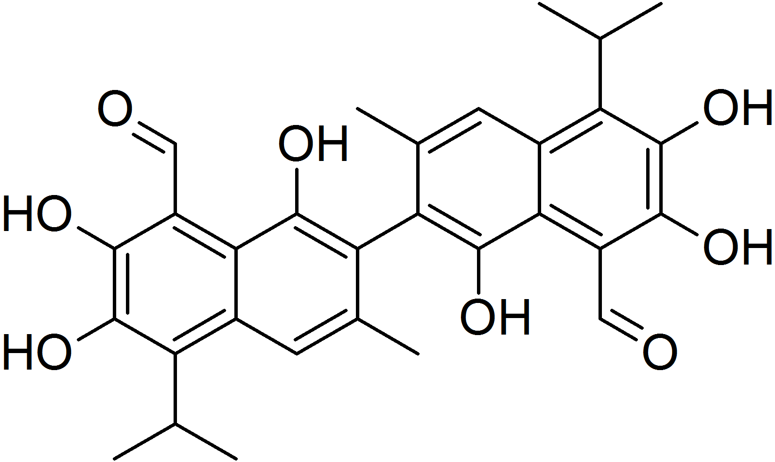 Description: Chemical structure of gossypol Author, date of creation: selfmade by Shaddack, 0 November 2006 Source: self-made Copyright: Public Domain (PD) Comments: b/w hires PNG; ChemDraw